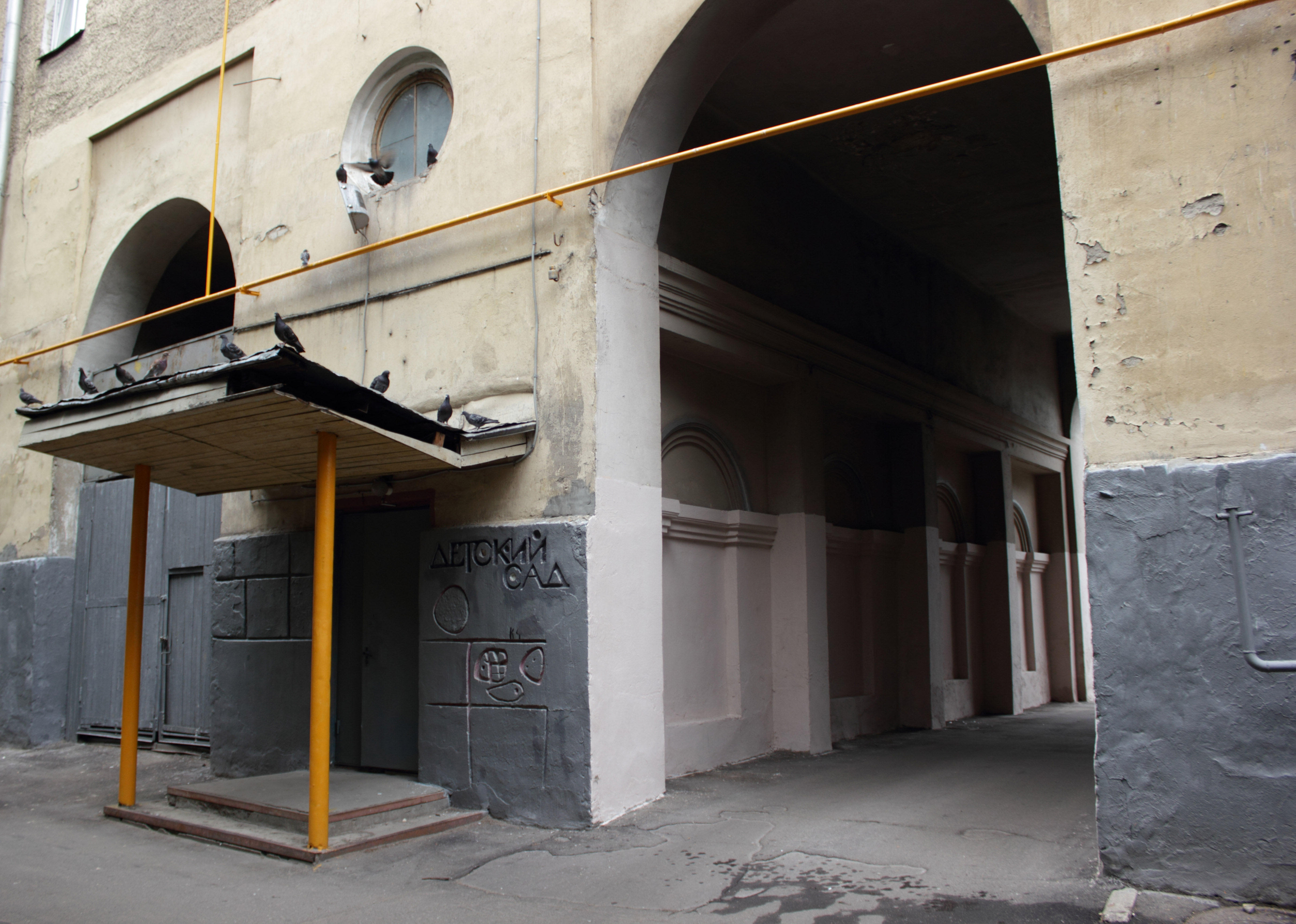 Entrance to kindergarten in the Verkhnaya Maslovka, 3 building.